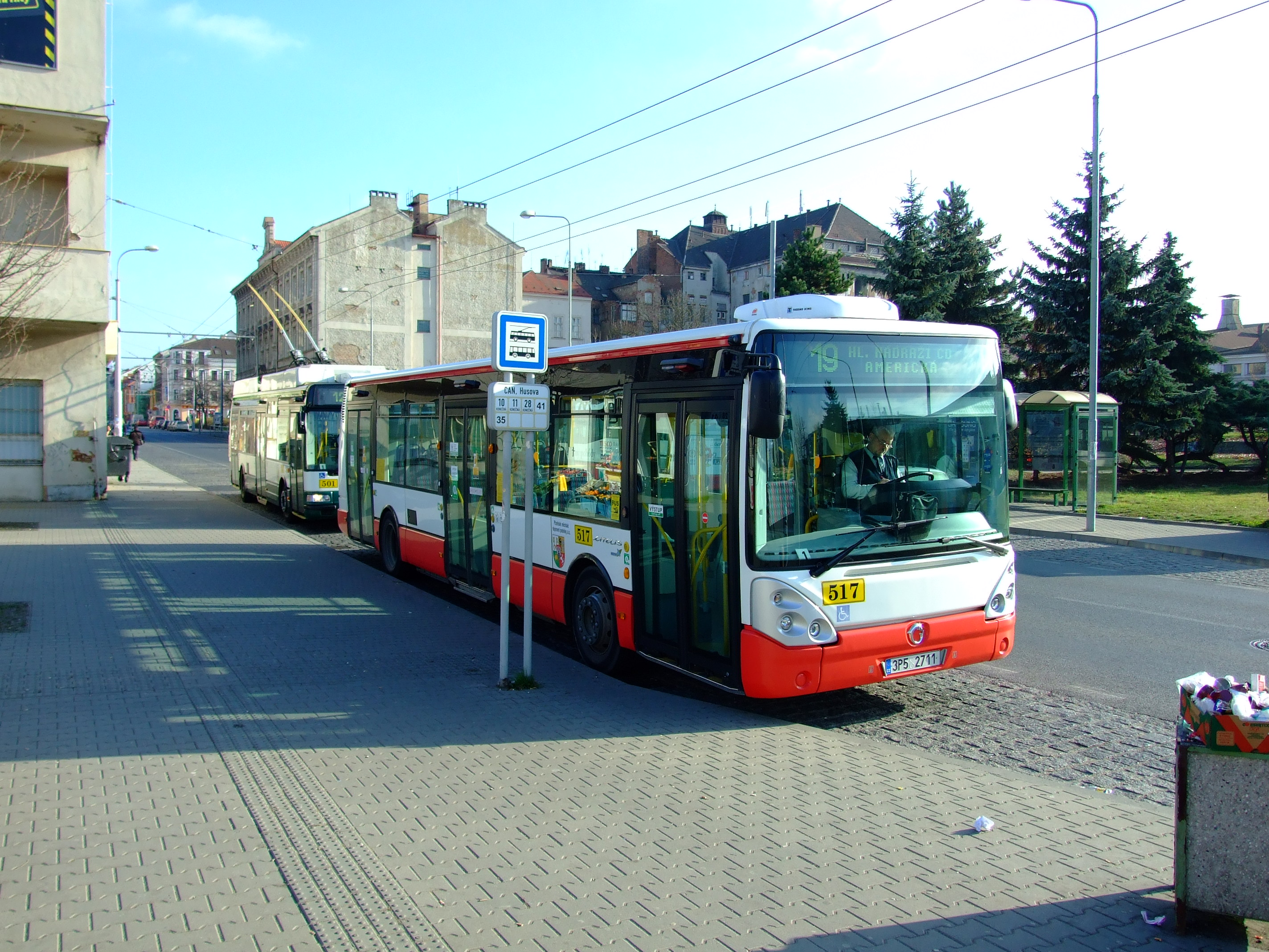 Public transport in Pilsen, CZhelp